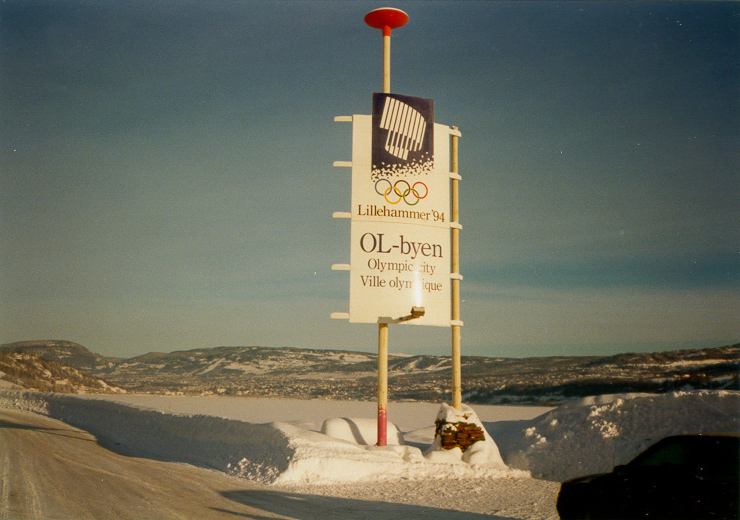 A sign welcoming you to Lillehammer.